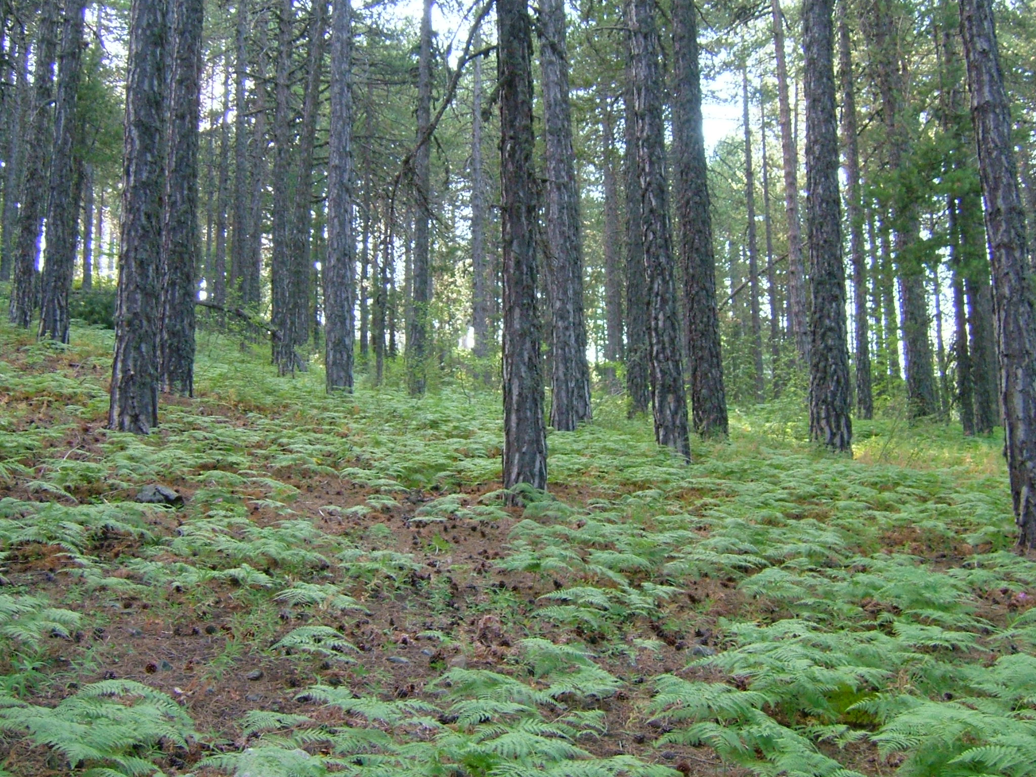 European black pine forest (Pinus nigra) in Troödos Mountains, Cyprus.